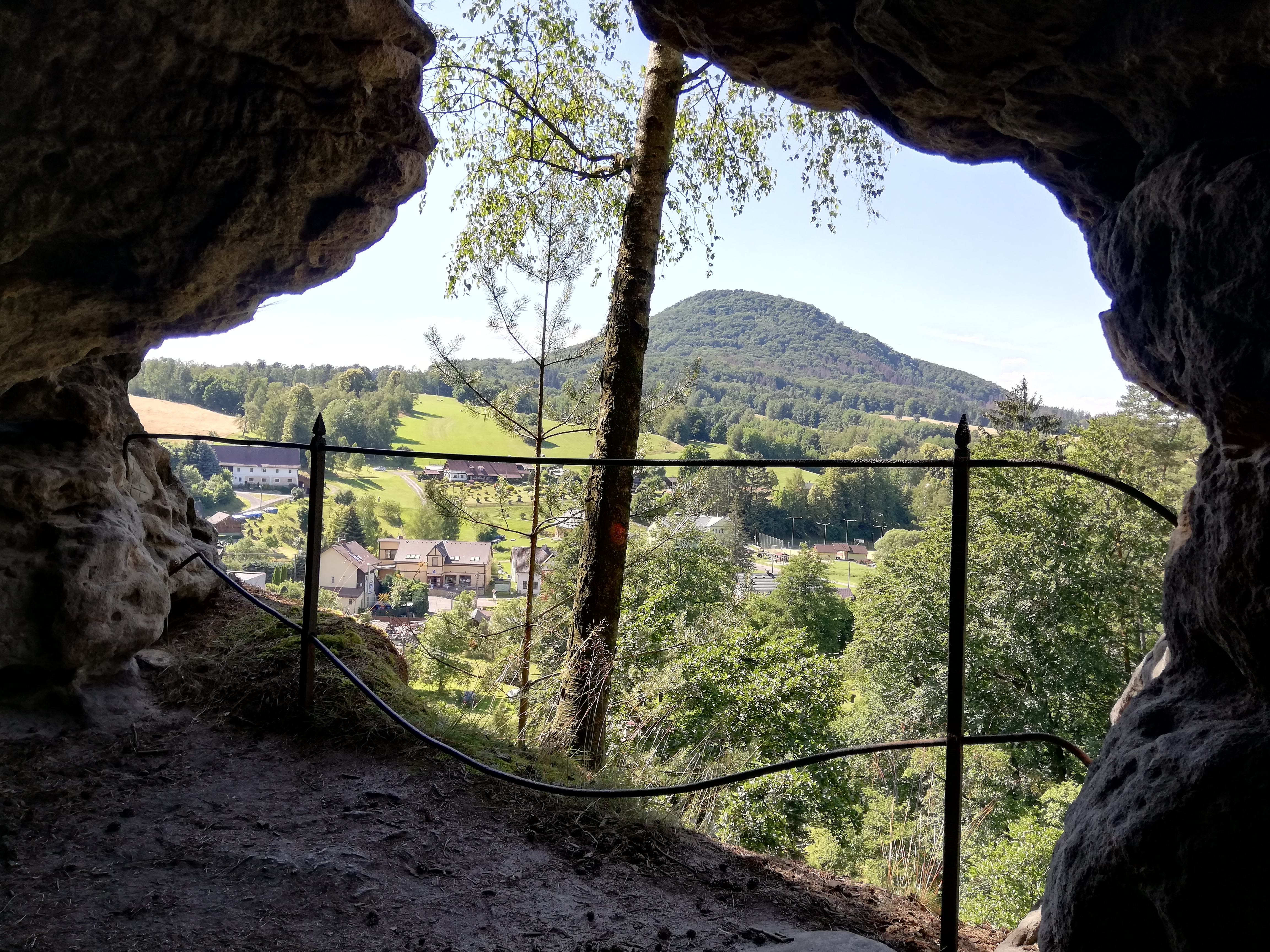 "Růžovský Hill" near Srbská Kamenice, view from the "Kriegsloch cave" above the village Srbská Kamenice, Czech republic